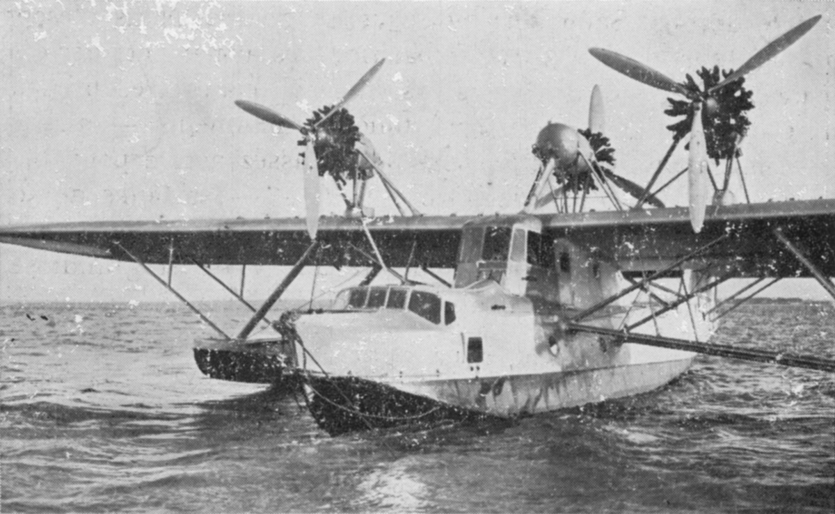 Seaplane Loire-70 with three engines Gnome-Rhône 9K 500 HP.